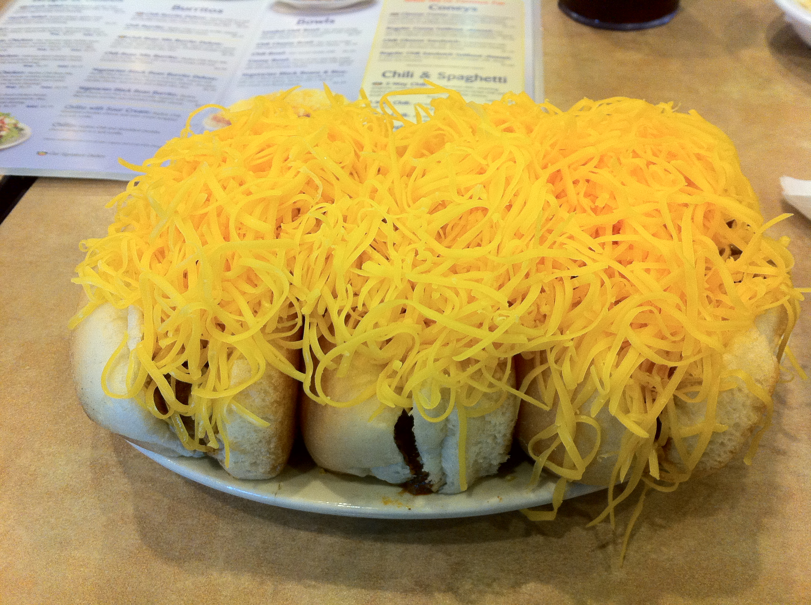 Coneys of Skyline Chili, chili parlor chain based in Cincinnati, Ohio, United States.